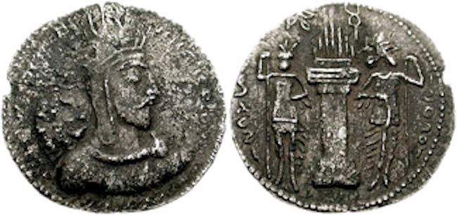 Hephthalites circa 350 CE. Baktria? AR Drachm (3.43 gm). Imitating Sasanian king Shahpur I. Tall narrow bust resembling Shapur I; crown with korymbos and earflap / Fire altar flanked by attendants, sprig and caduceus to either side of flames.